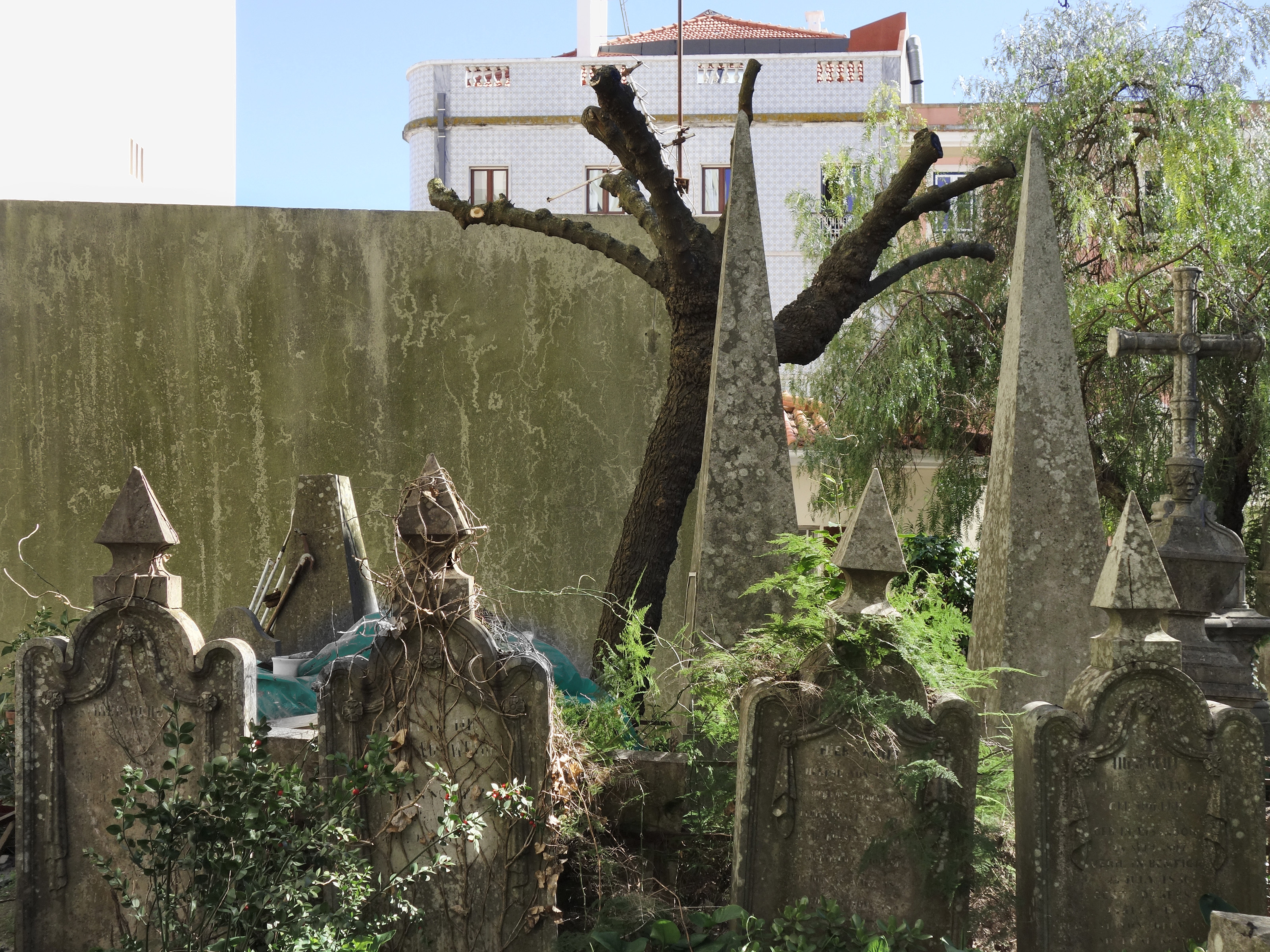 Cemitério Alemão, German cemetry, Lisbon.